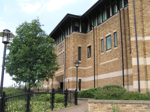 Police Station, Mosborough. Close to Crystal Peaks is the new police station which replaced the old Hackenthorpe nick.